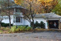 Early Childhood (EC) Building at Avery Coonley School, Downers Grove, Illinois